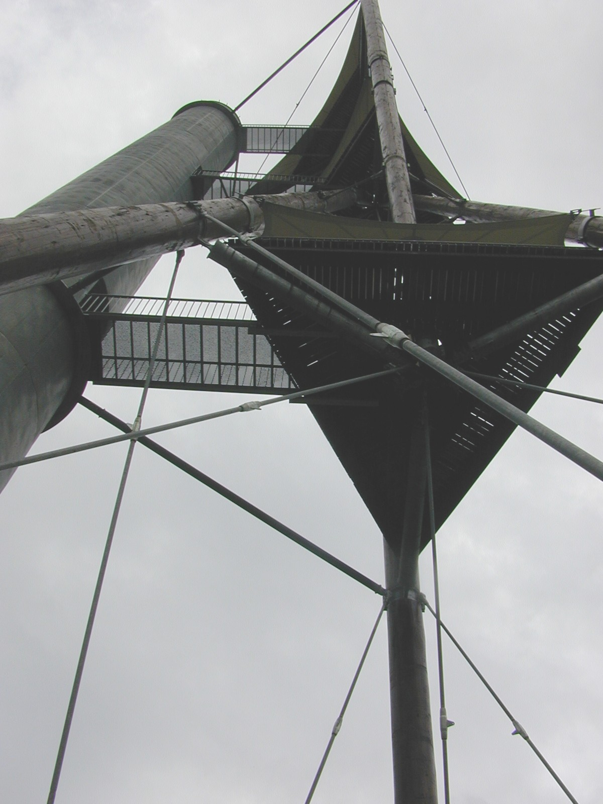 Millennium tower, Gedinne, Belgium